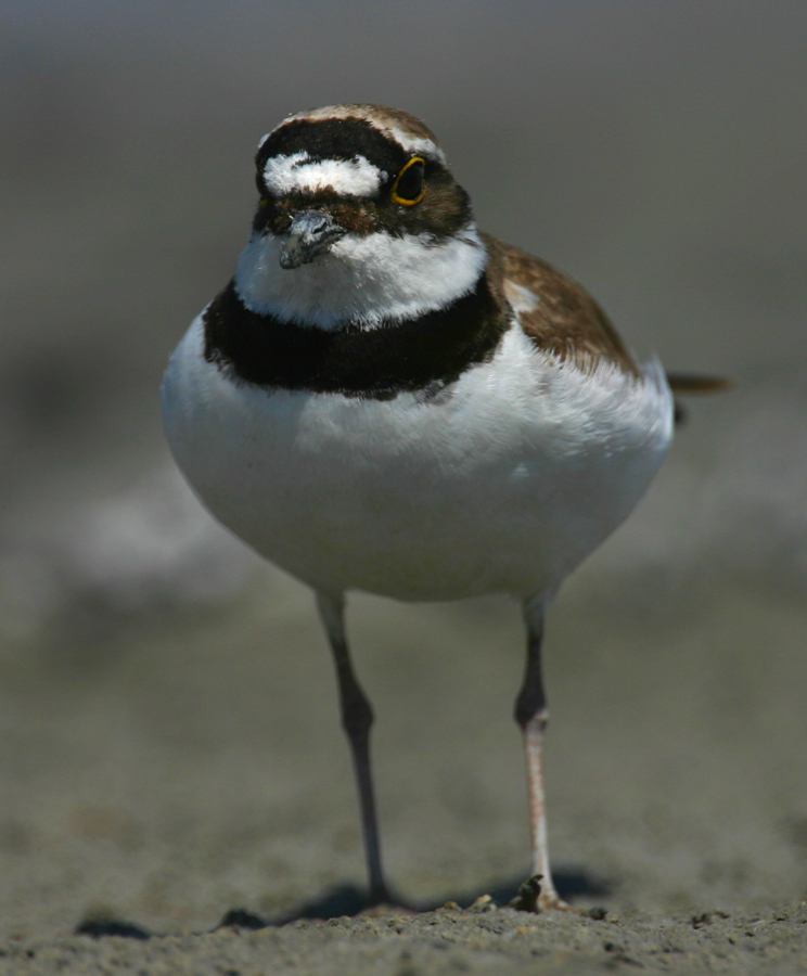 Little Ringed Plover (Charadrius dubius), Mekszikópuszta, Hungary